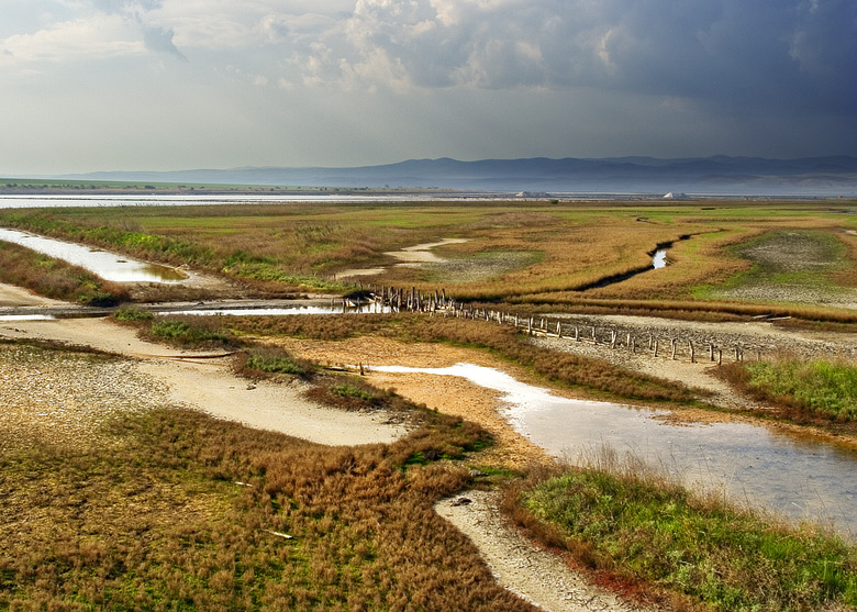 Atanasovsko late from the north side